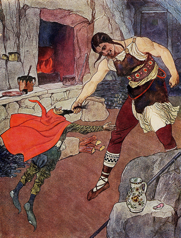 Illustration by Czech painter Artuš Scheiner for a Czech national fairy tale (from a collection by Božena Němcová)